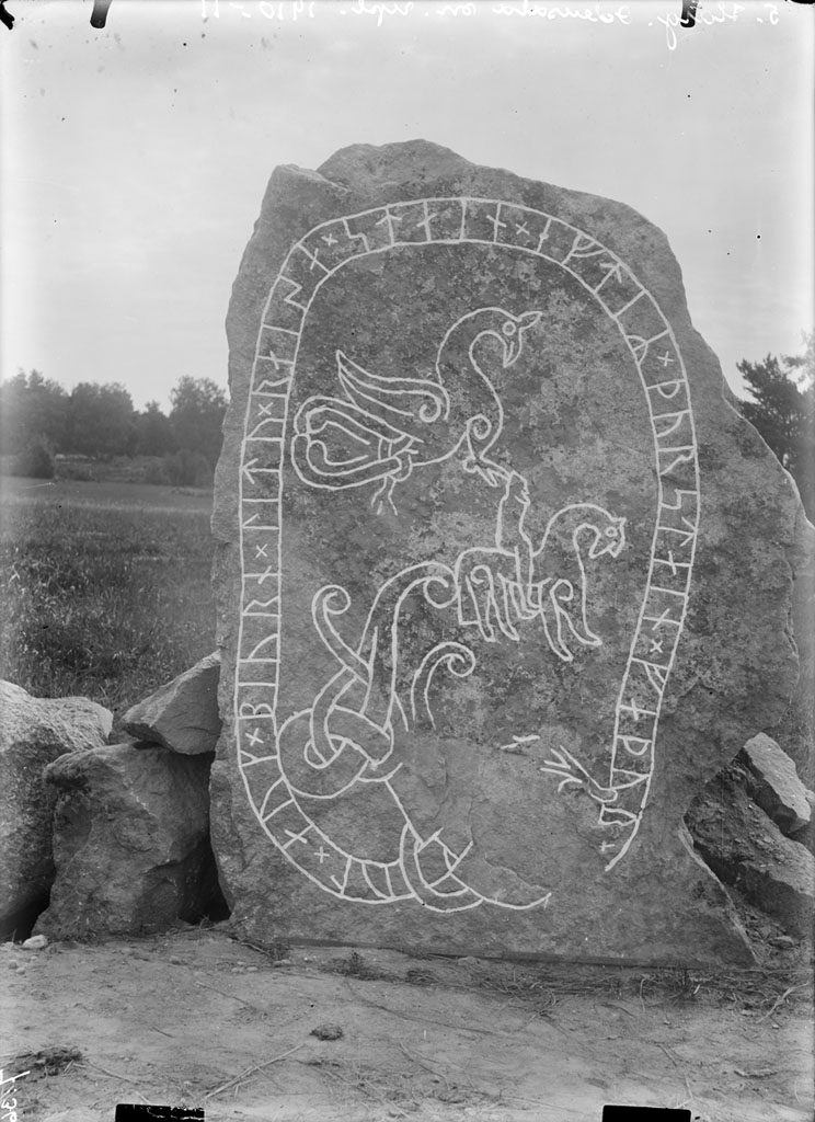 Rune stone (U 448) at Harg. The inscription says: "Igul and Björn raised the stone in memory of Torsten, their father".